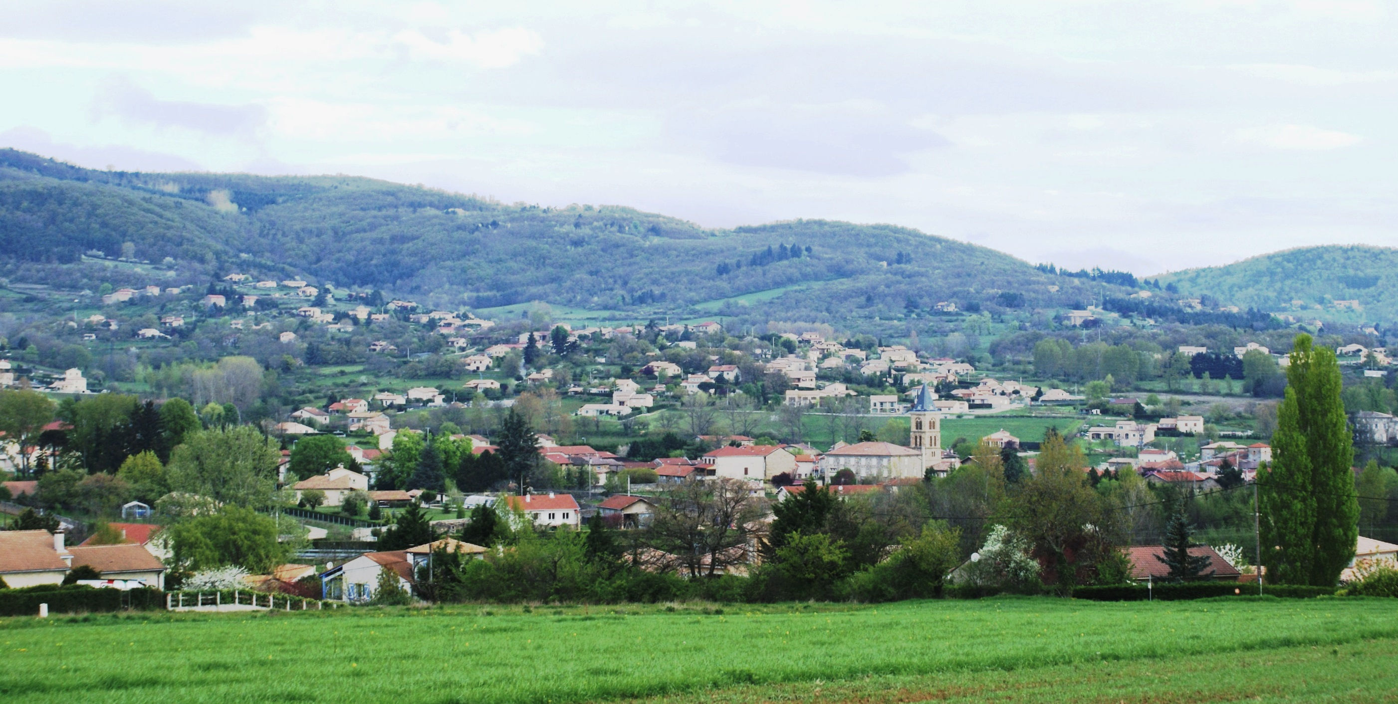 Peaugres détail